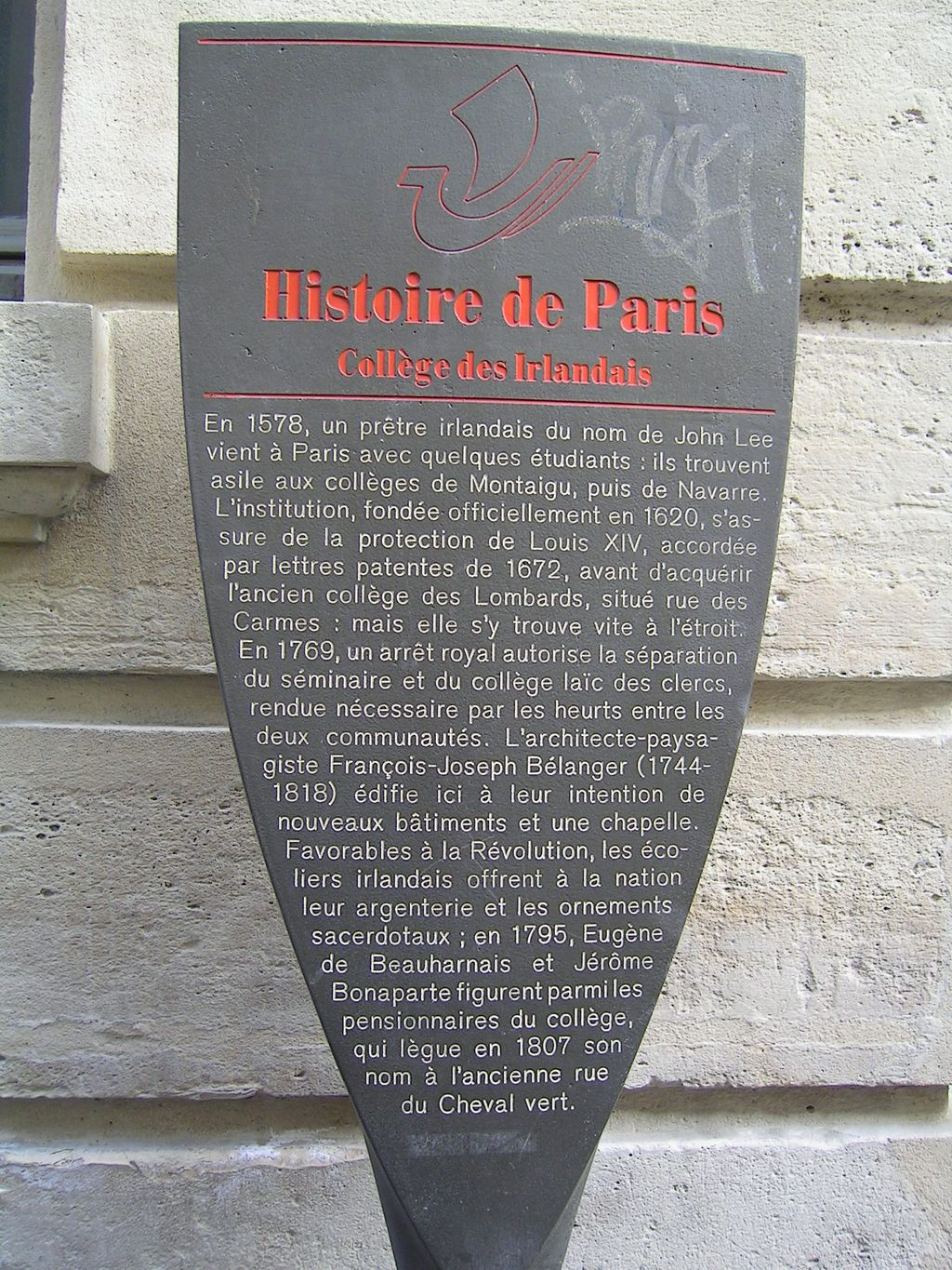 Panneau explicatif Photo personnelle (own work) de Marianna